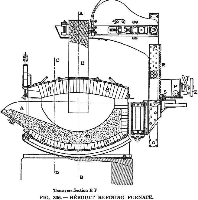 Transversal view of the electric arc furnace invented by Paul Héroult.